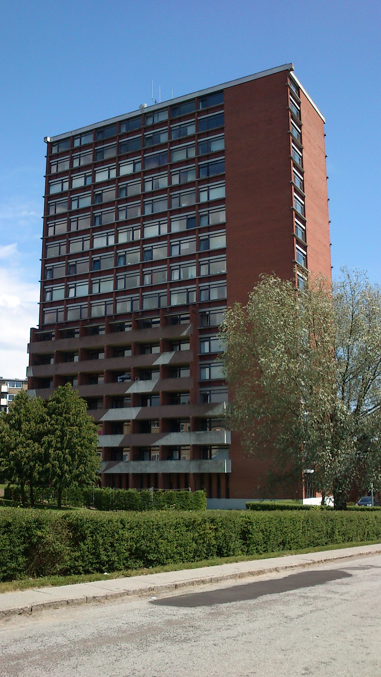 The high-rise apartment building of Højhus Charlottehøj in Aarhus. Built in 1962 in bricks, it stands 48 m high with 16 stories. It was the first high-rise built from bricks in Denmark. Højhus Langenæs was next and these two buildings are the only high-rises in brick in the country as of 2014.